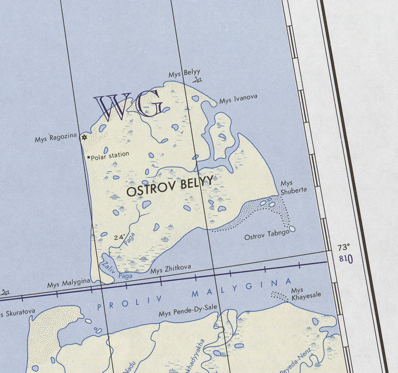 part of original map, covering Bely Island off Yamal Peninsula, Russian Arctic